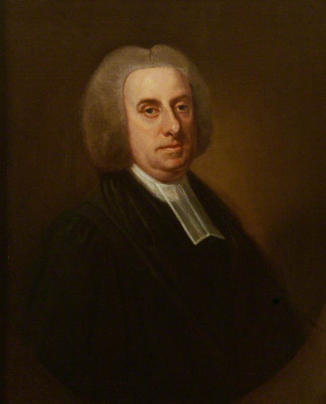 Portrait of Benjamin Kennicott (1718–1783), English biblical scholar.